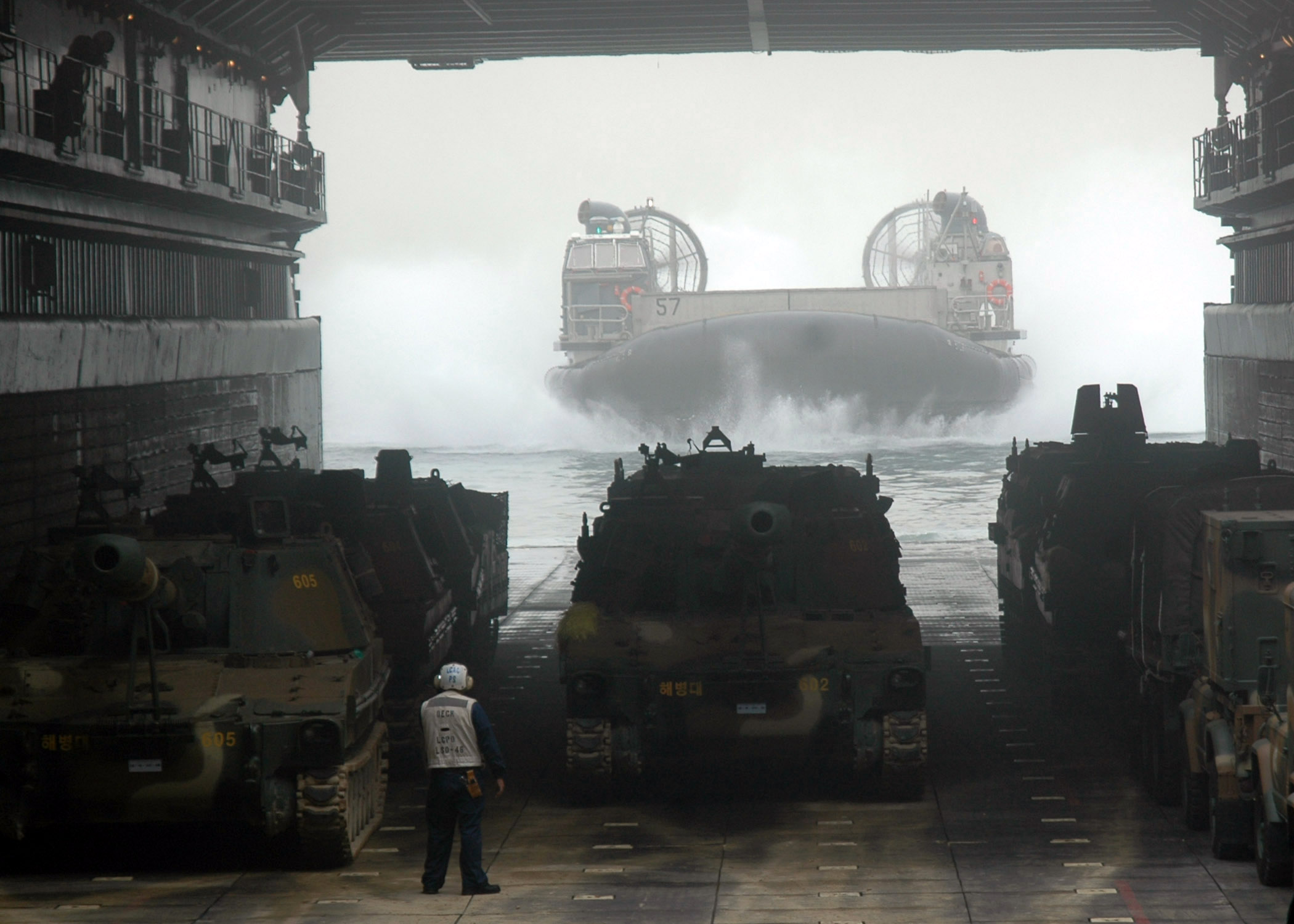 070401-N-6710M-038 SOUTH CHINA SEA - Members attached to the 31st Marine Expeditionary Unit (MEU) offload Republic of Korea (ROK) tanks and other equipment while aboard dock landing ship USS Tortuga (LSD 46) at the close of Foal Eagle 2007. Foal Eagle is an annually scheduled exercise involving forces from the United States and the ROK to improve combat readiness through interoperability.